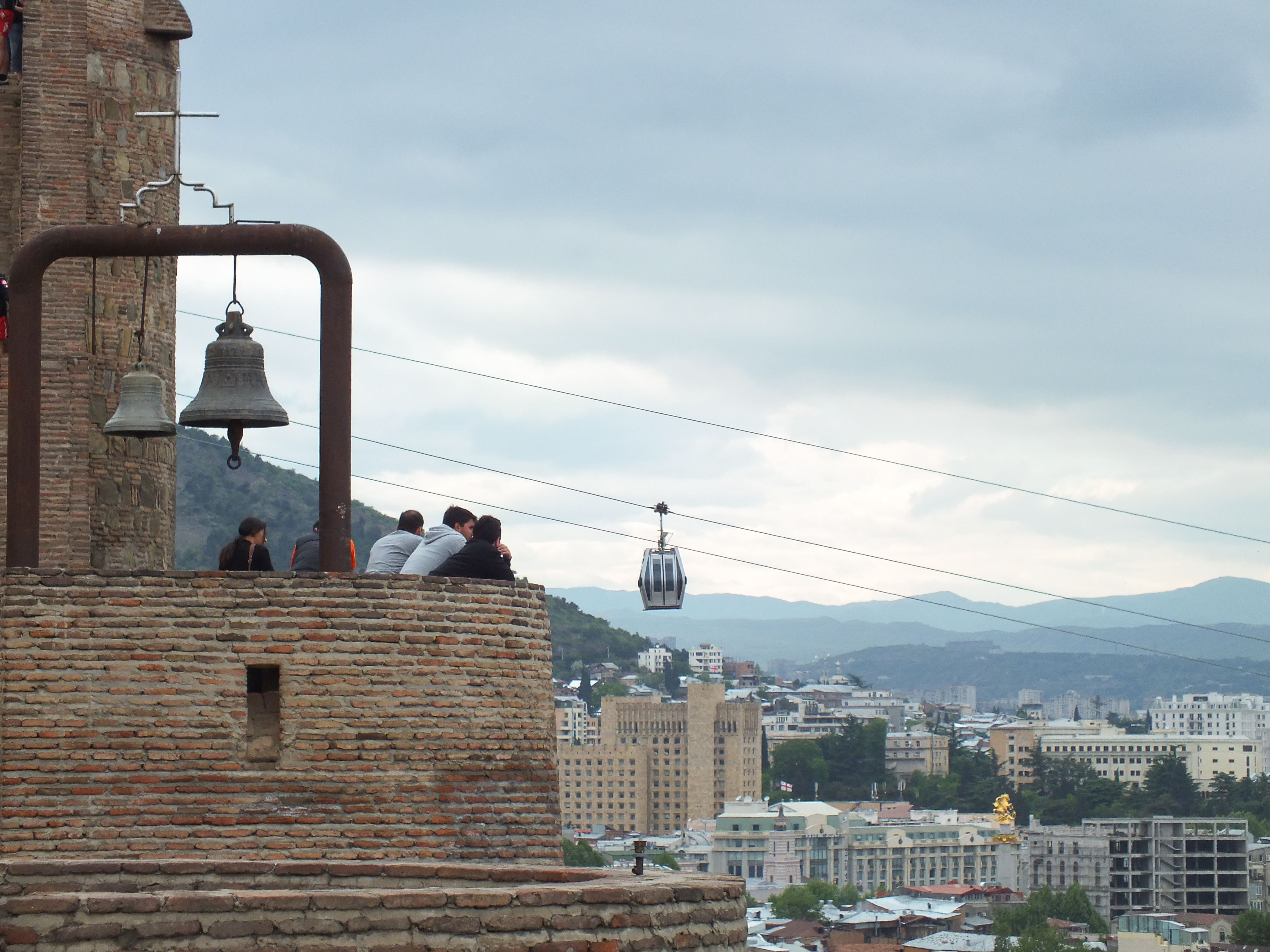 Parts of the Narikala fortress and a aerial tramway leading to it from downtown Tbilisi, Georgia.